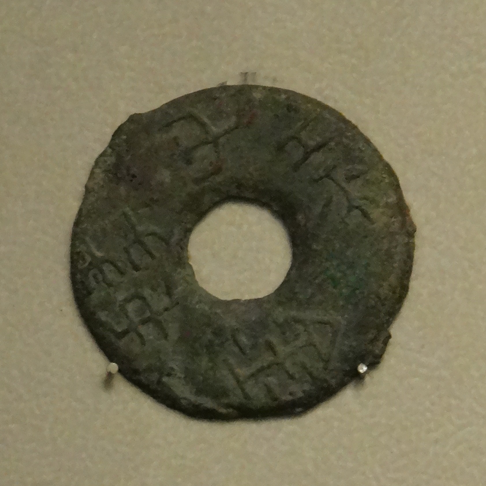 Bronze Coin with Inscriptions of Gong Tun Chi Jin